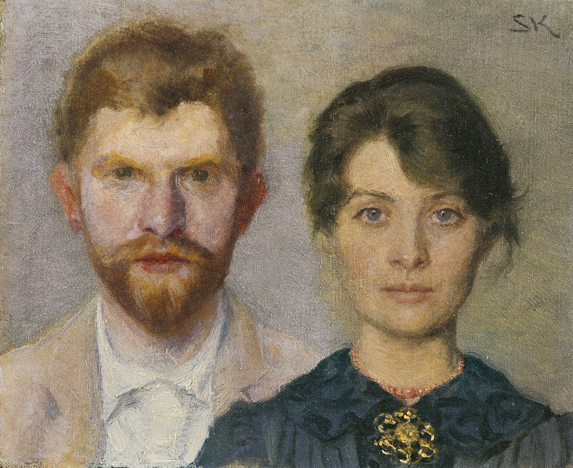 The couple made this portrait on their honeymoon travel. Marie portrayed Peder Severin (this time only) and he portrayed Marie (one out of about forty portraits).